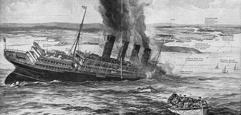 This stylized period illustration shows the Lusitania going down on a fairly even keel as Irish fishermen race to the rescue. In fact, the launch of the lifeboats was considerably more chaotic than shown here.